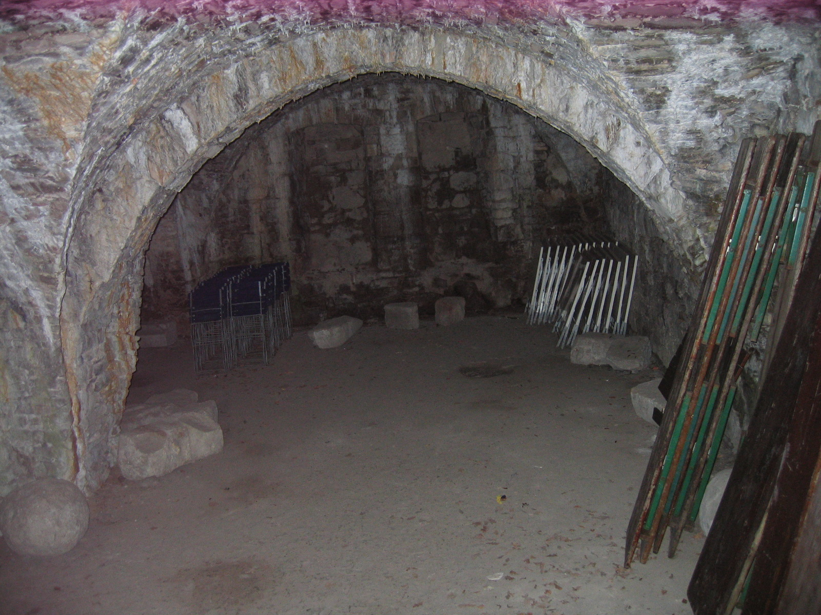 Ruin of Vlotho castle in Vlotho, District of Herford, North Rhine-Westphalia, Germany.